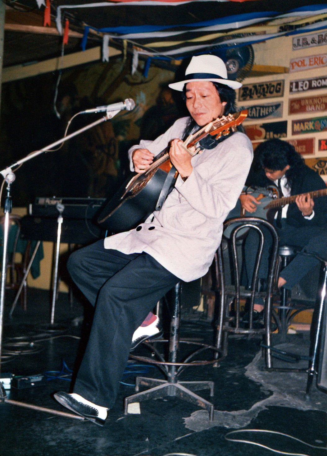 Freddie Aguilar, popular folk musician from the Philippines. Photo taken in Tondo, National Capitol Region, The Phillipines